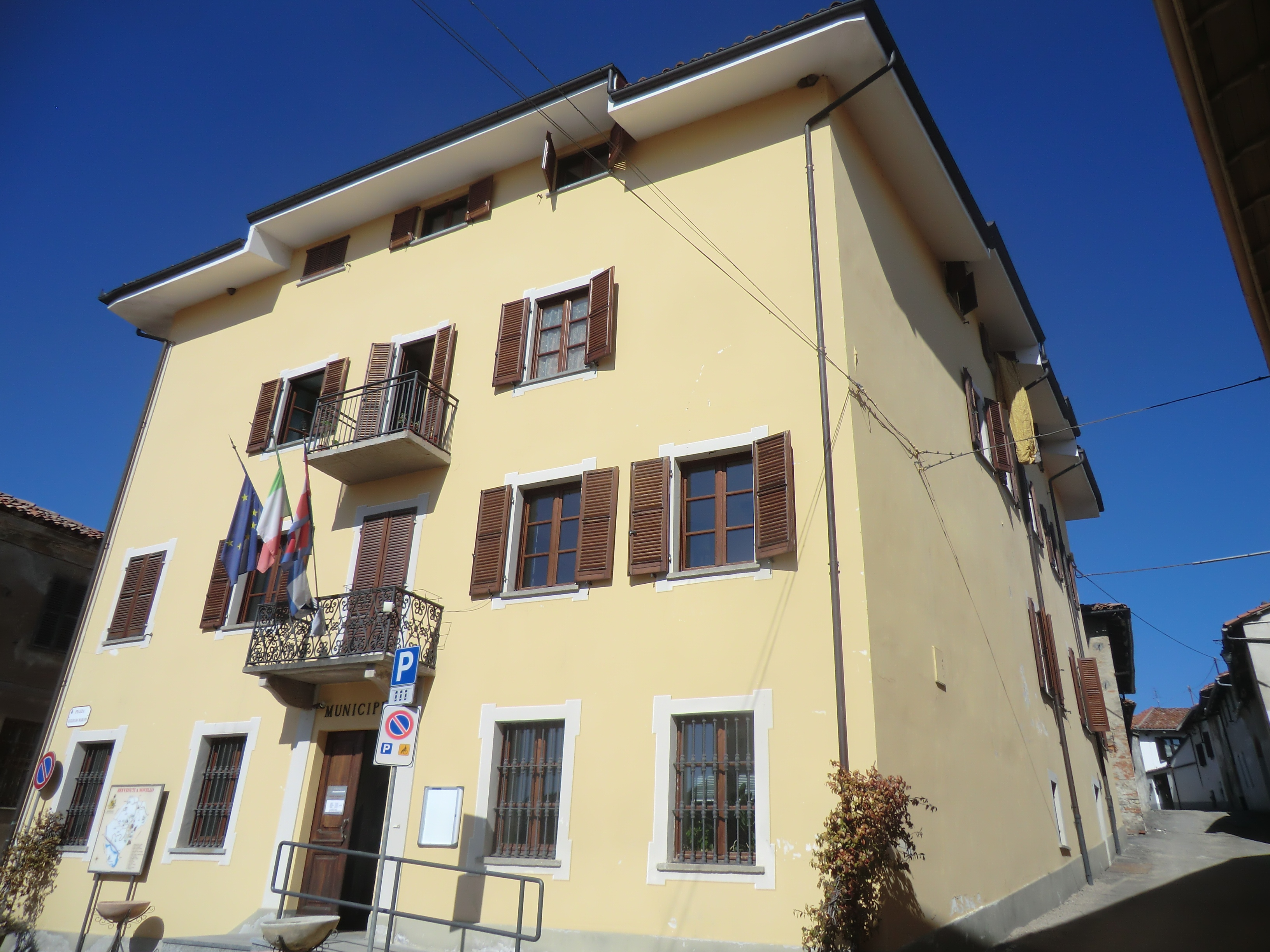 Novello (Cuneo - Italy): city hall